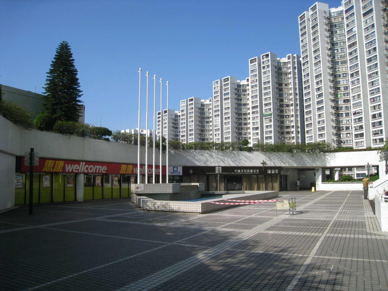 Kornhill Upper Residentional 康怡花園